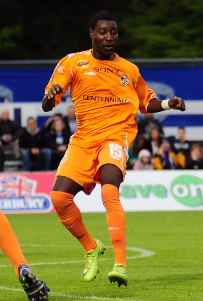 Photo of soccer player, Sandi Gbandi.